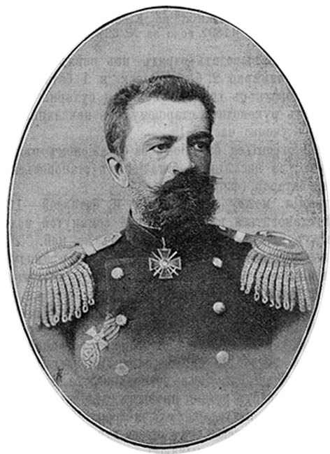 Filippov, Fladimir Nikolayevich.